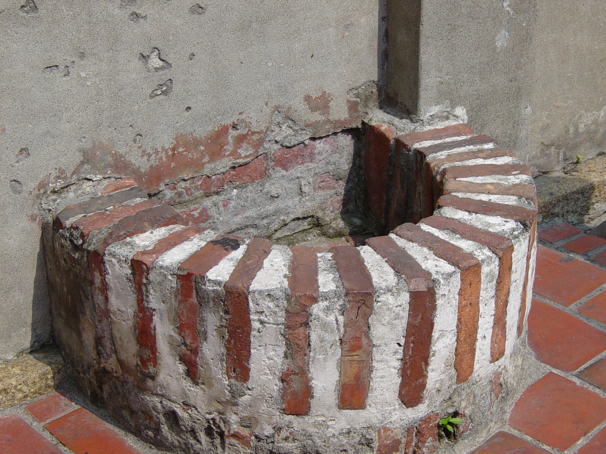 Banbian Well